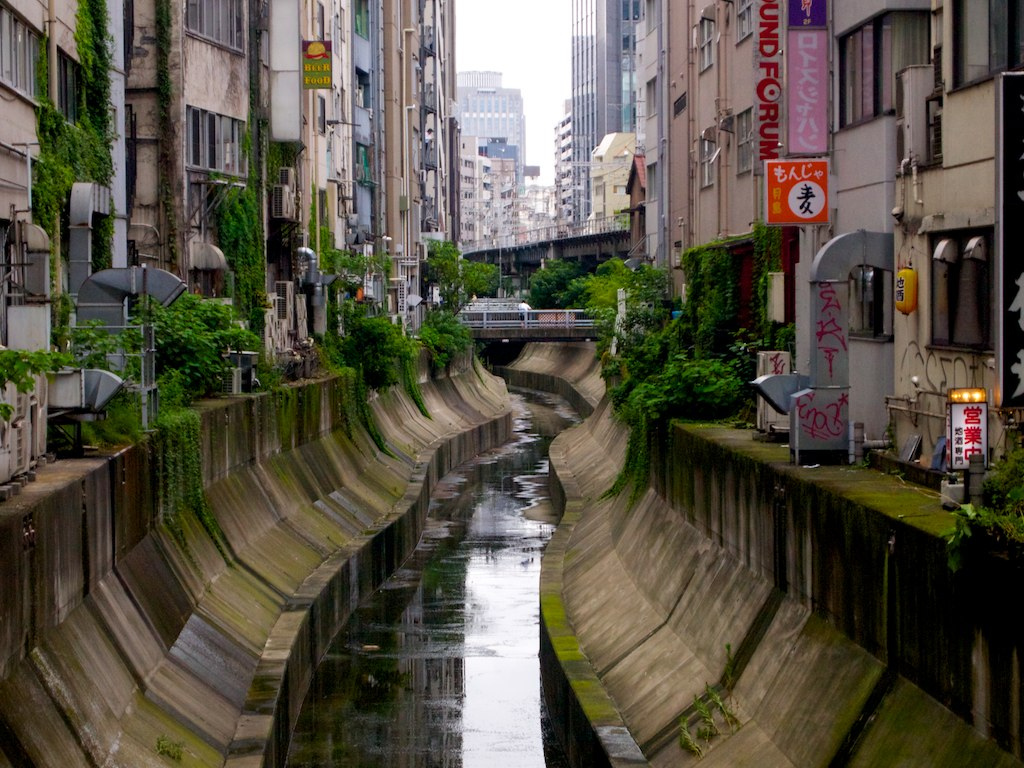 A view downstream of the Shibuya River from Inari Bridge in Shibuya, Tokyo. 〔Geo tag data added below.--トトト (talk) 12:35, 8 September 2011 (UTC)〕